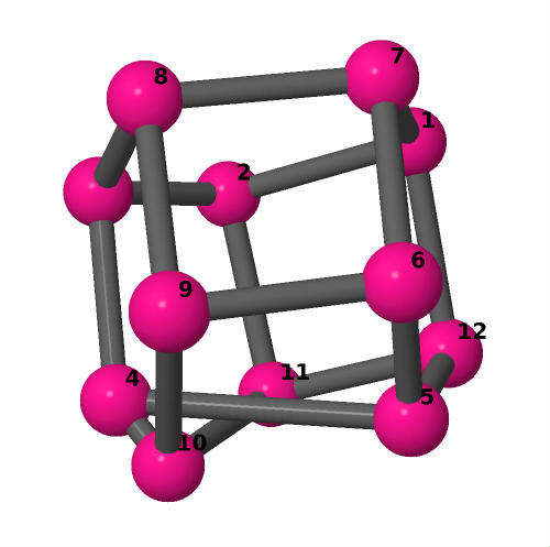 One of 85 simple cubic graphs with 12 vertices.